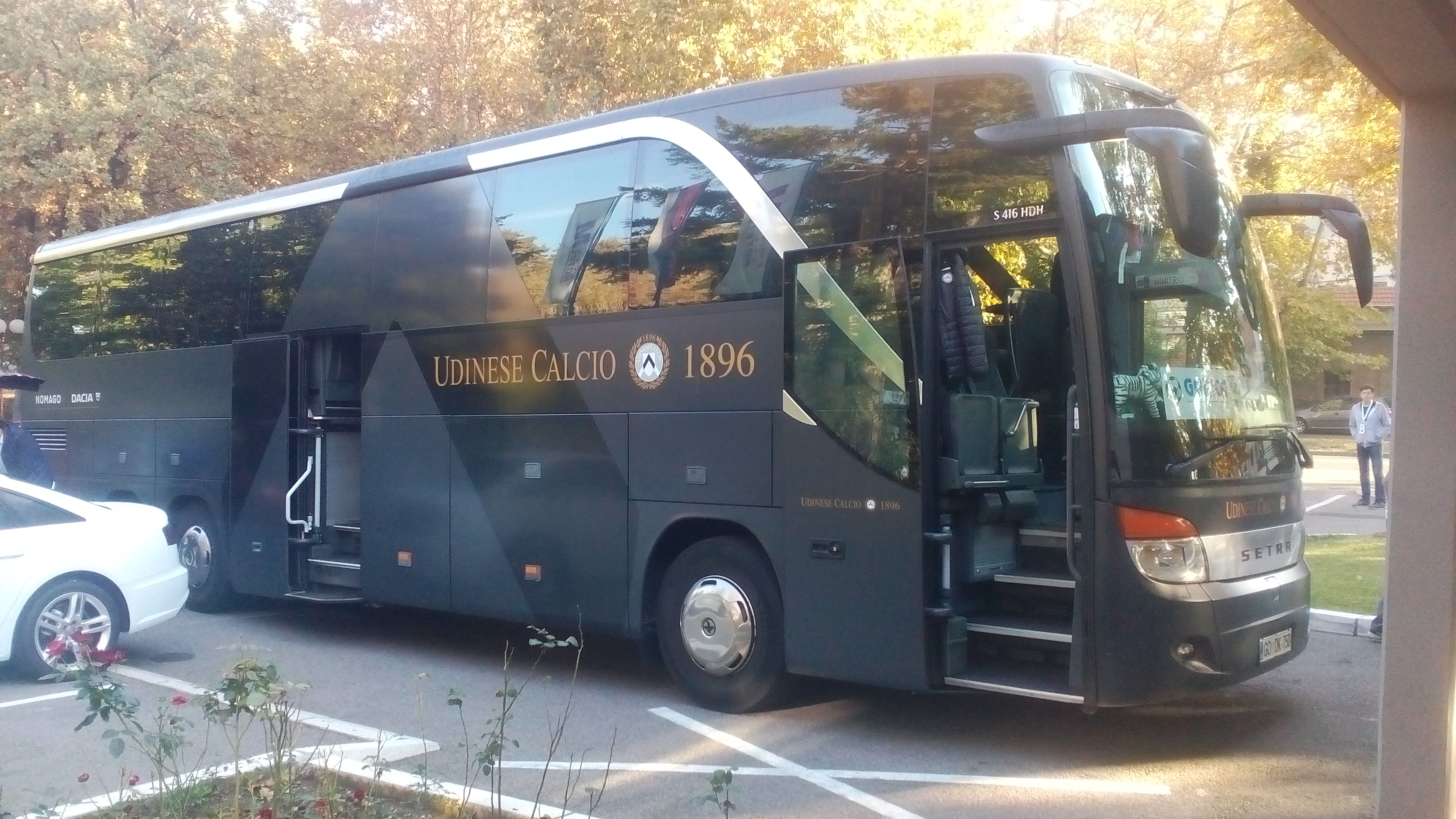 Udinese Calcio bus in Belgrage